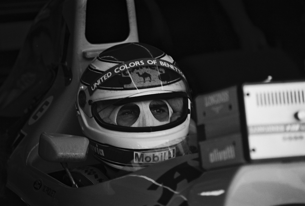 Nelson Piquet at the 1991 US Grand Prix.